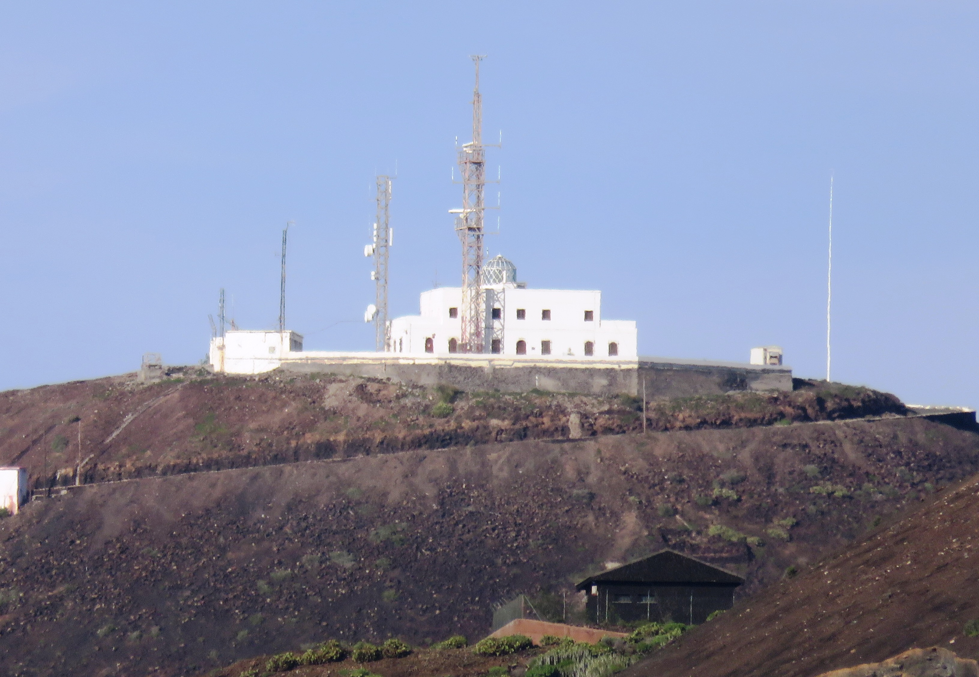 Distant view of La Isleta lighthouse